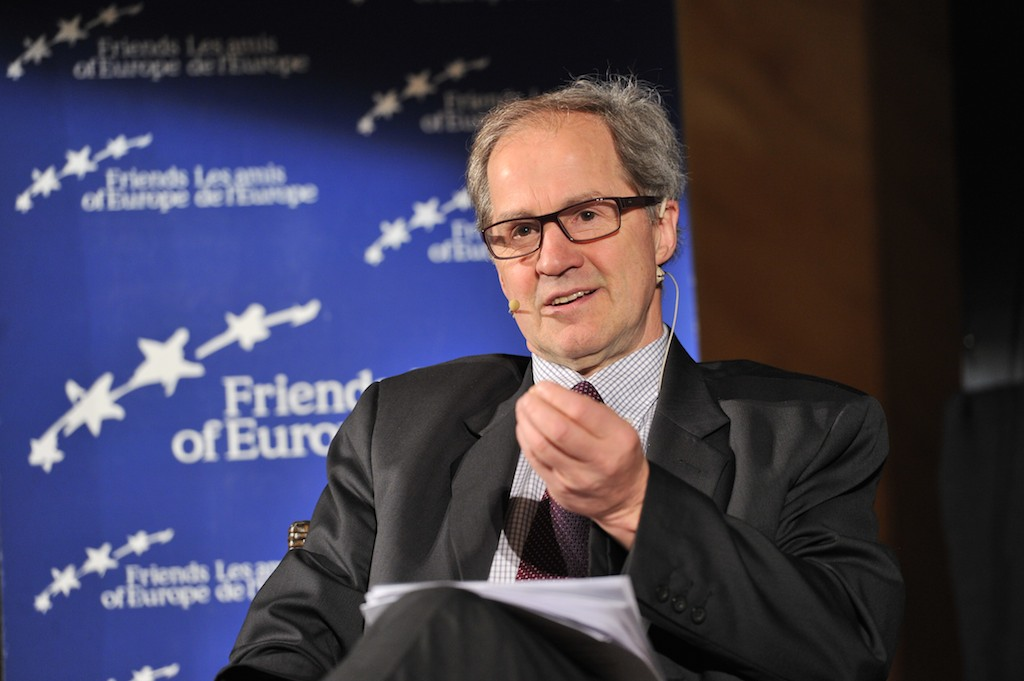 Friends of Europe - One year after Fukushima: The future of nuclear energy in Europe